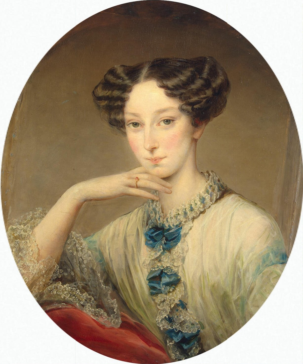 Empress Maria Alexandrovna of Russia, née Princess Marie of Hesse